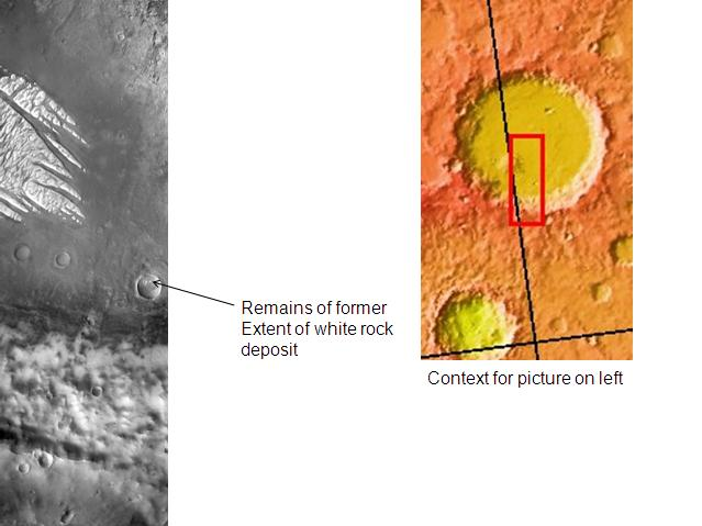 Whiterock in crater. Location is 8.2 degrees south latitude and 335.1 degrees west longitude. This picture was taken by the Mars 2001 Odyssey Thermal Emission Imaging System (THEMIS). The picture credit is NASA/JPL/Arizona State University.